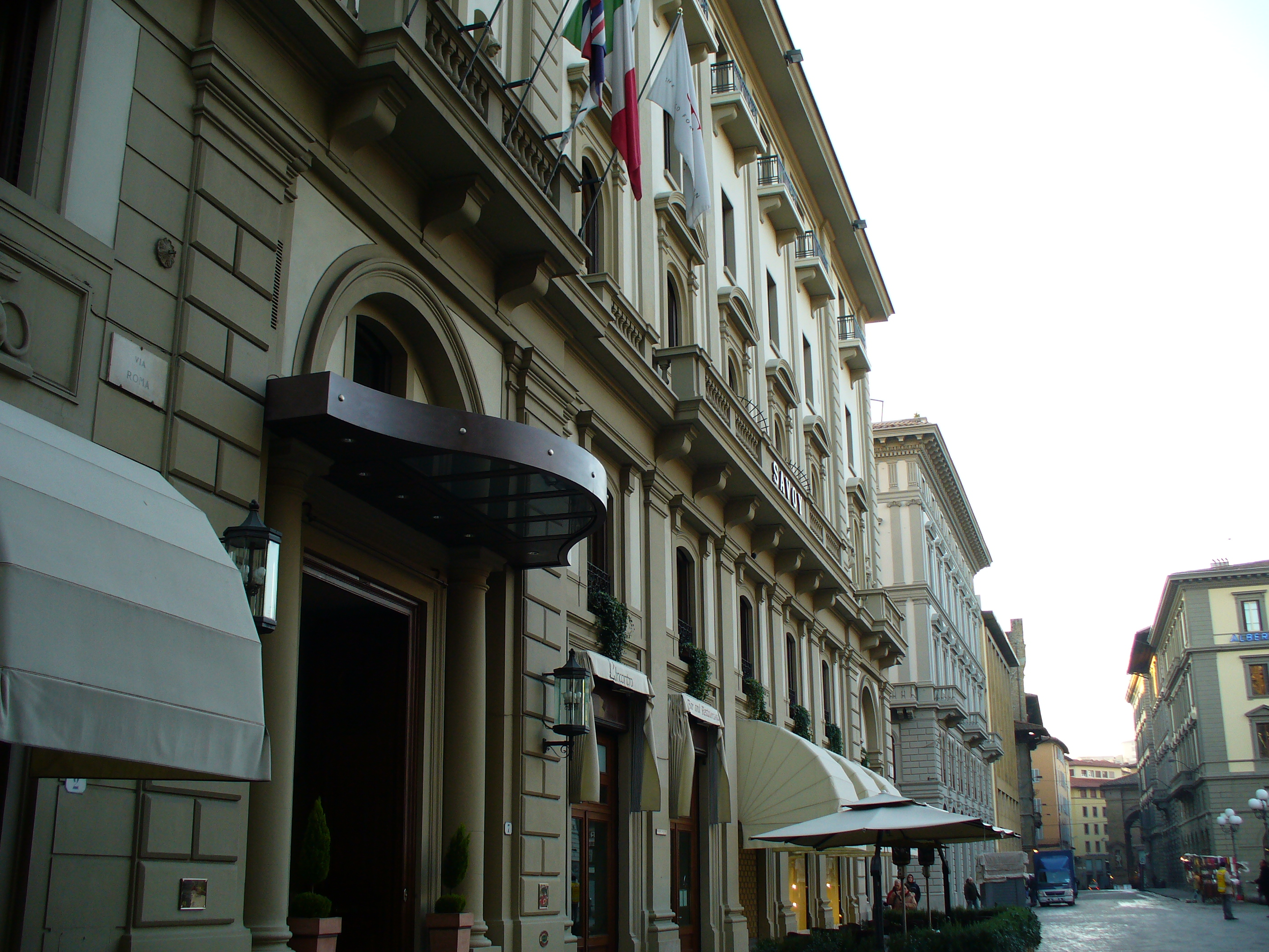 Piazza della Repubblica in Florence